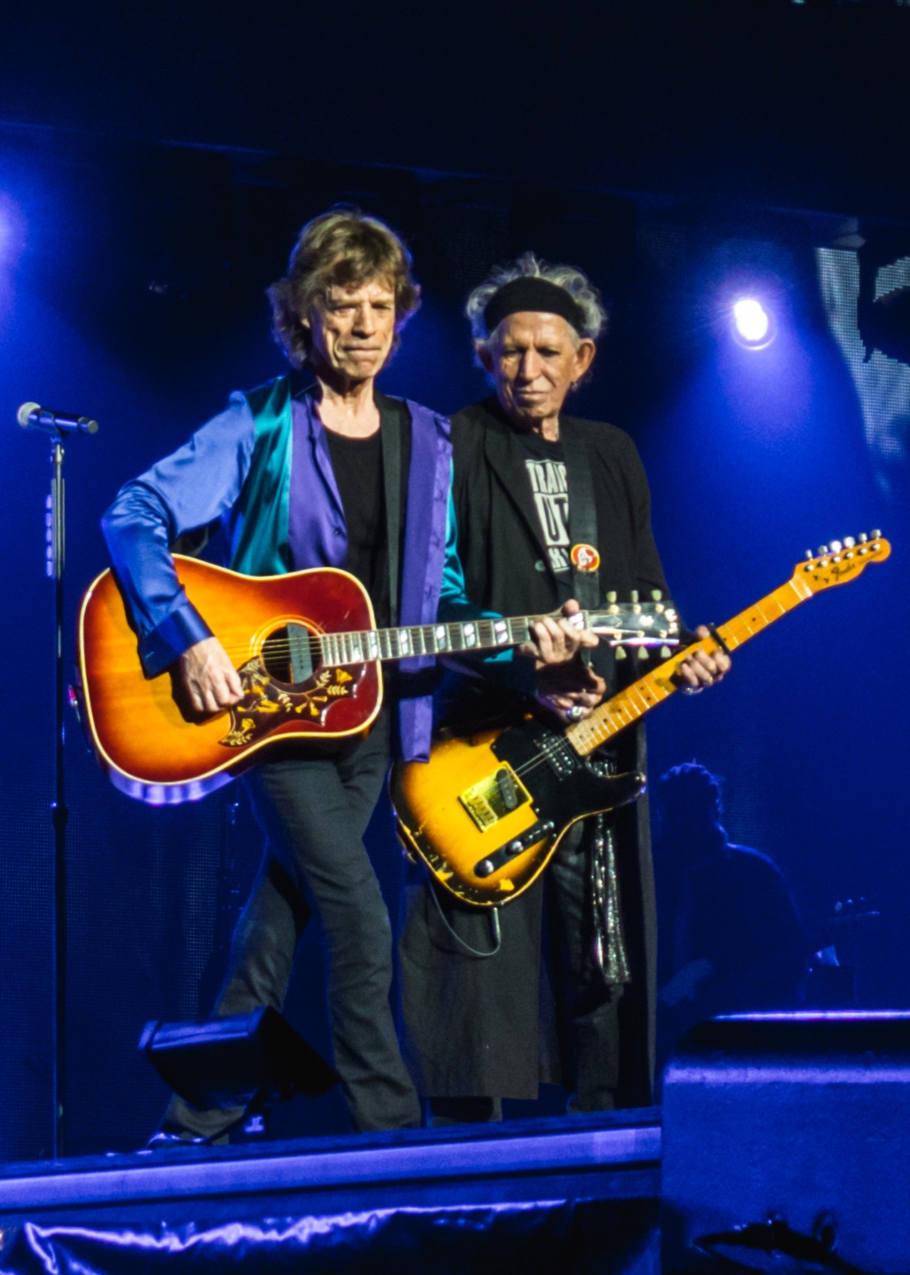 A cropped version of File:The Rolling Stones - Friends Arena Stockholm - Thursday 12th October 2017 StonesStockholm121017-42 (37681793901).jpg